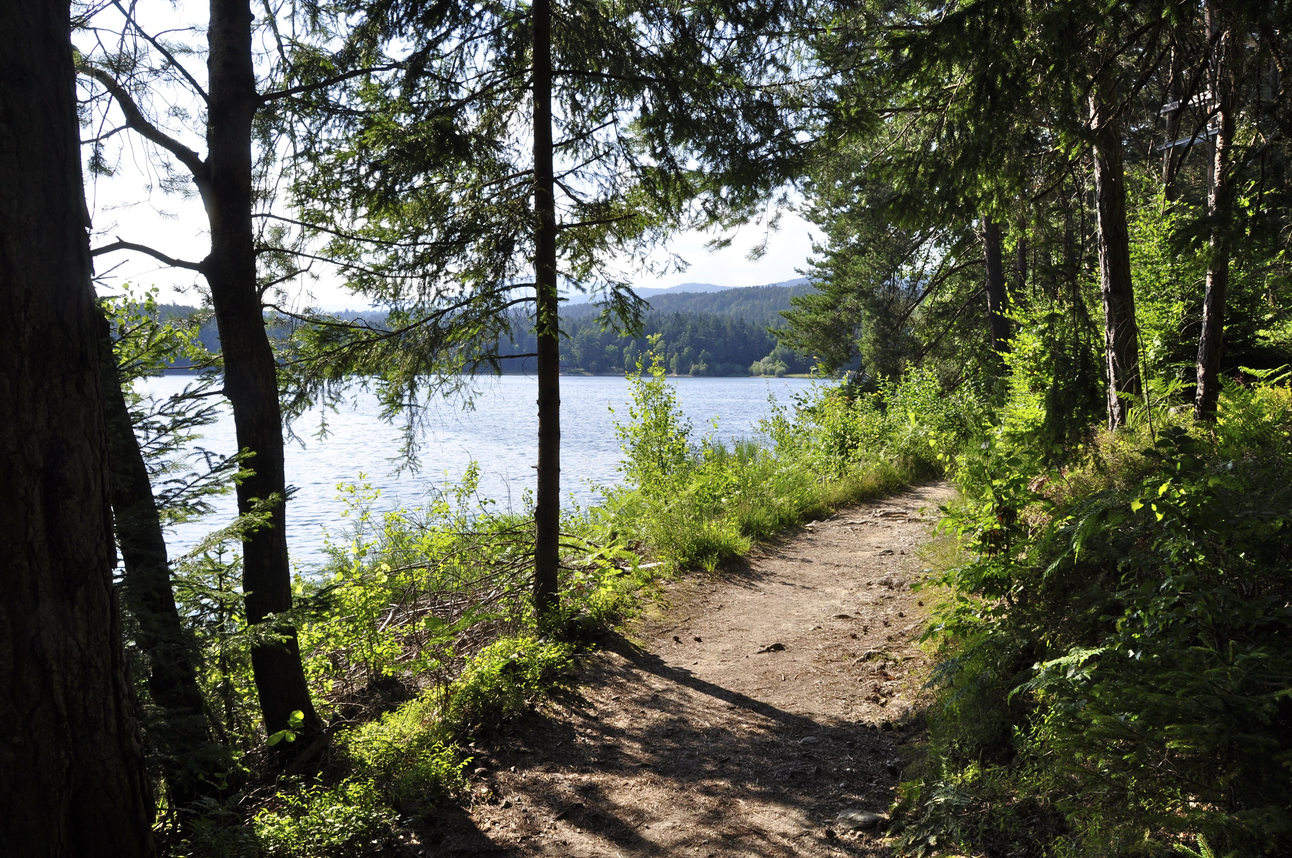 Antique road to the Forstsee at Tibitsch, municipality Techelsberg am Wörther See, district Klagenfurt Land, Carinthia / Austria / EU